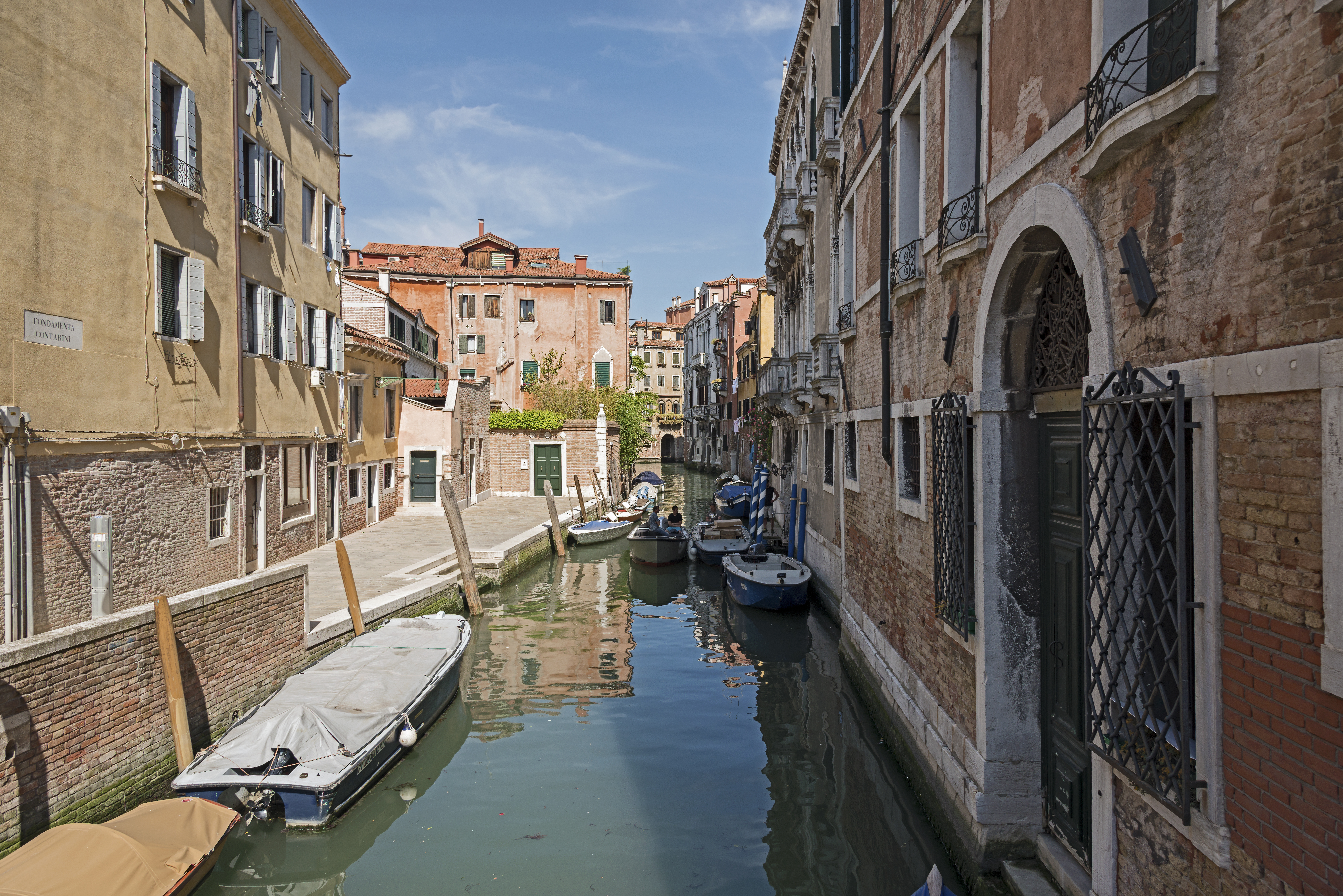 Rio di San Stin in Venice. The rio, seen from San Stin's Bridge